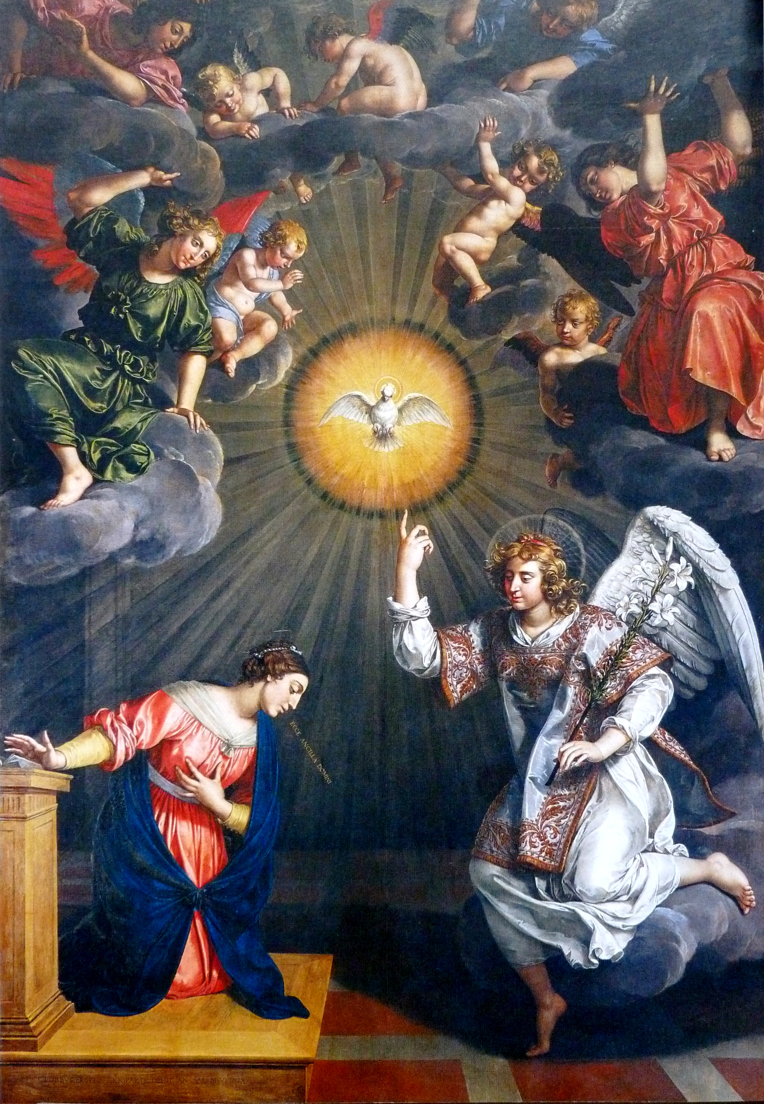 The Annunciation